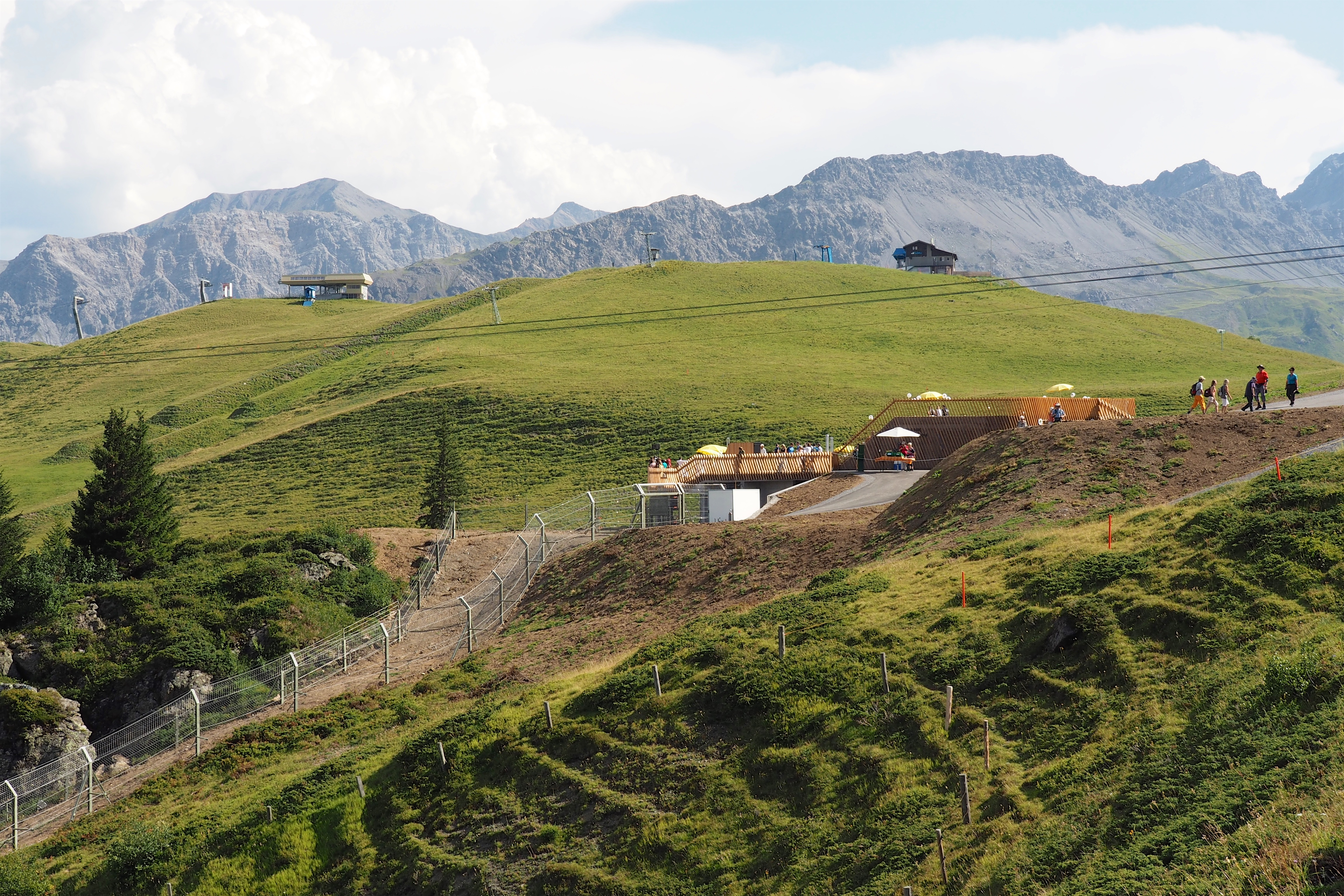 Arosa Bärenland with Tschuggen in the background